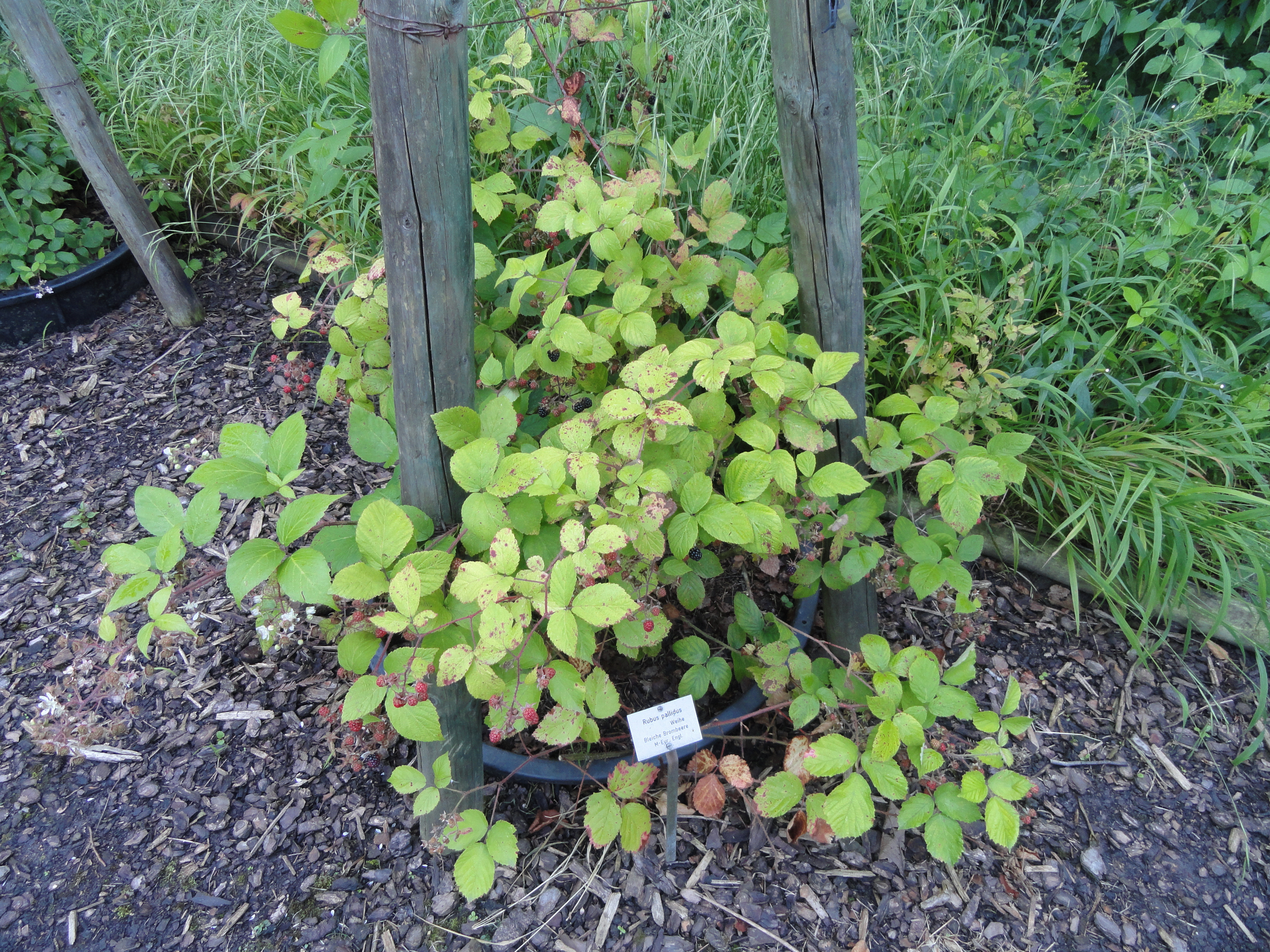 Botanical specimen in the Botanischer Garten, Frankfurt am Main, located at Siesmayerstraße 72, Frankfurt am Main, Germany.